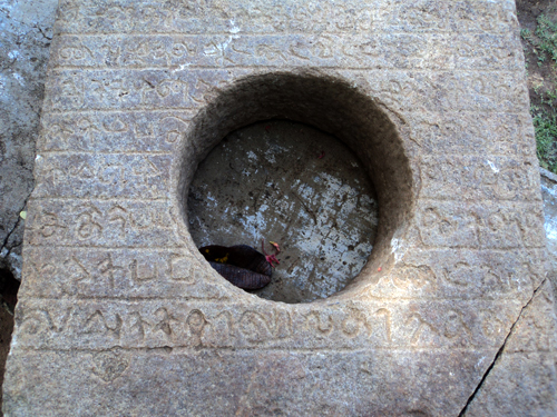 Trinco Chola insc 1